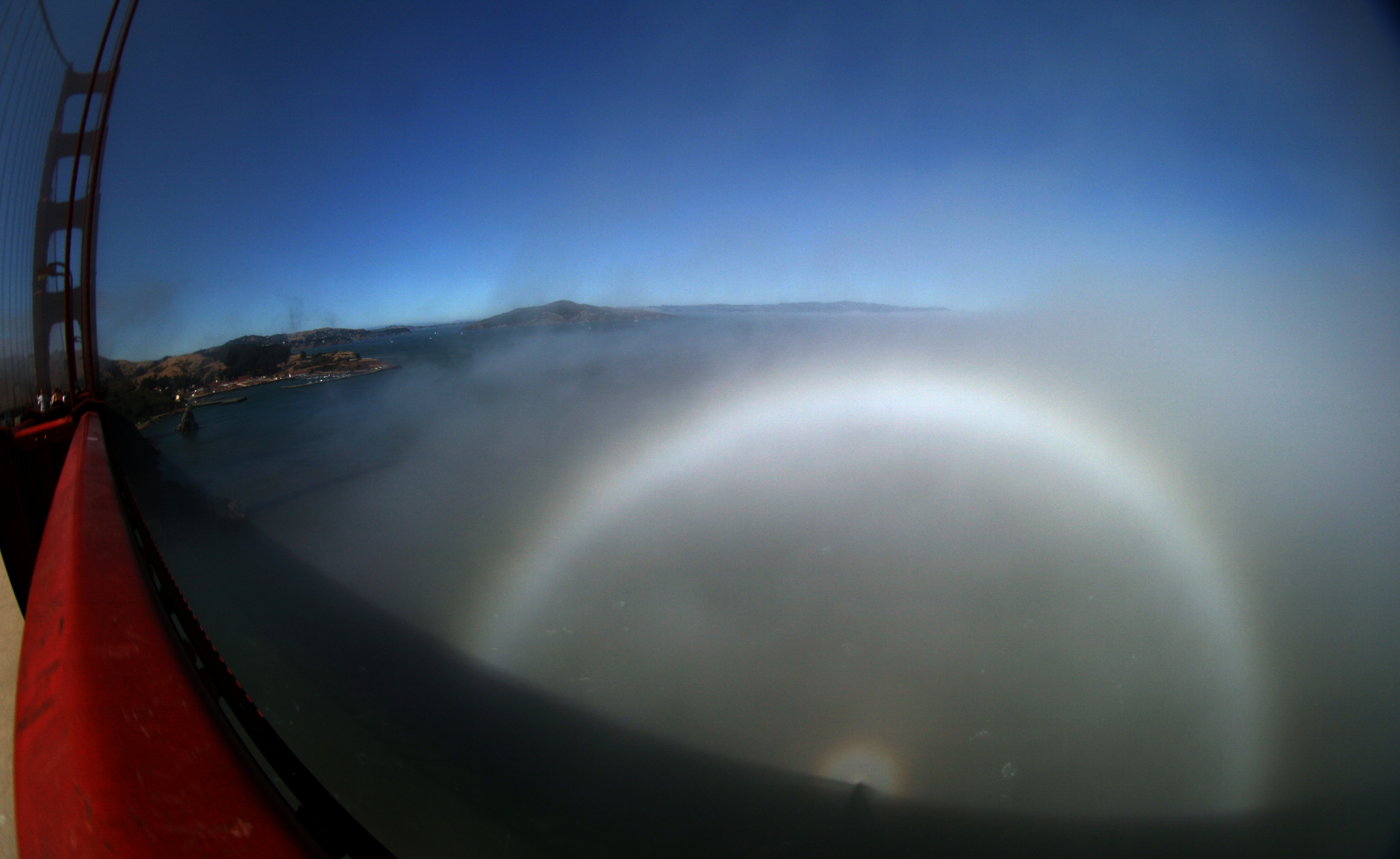 The picture was taken from Golden Gate Bridge. The picture shows solar glory, Spectre of the Brocken and Fog Bow as well as the North Tower of Golden Gate Bridge.